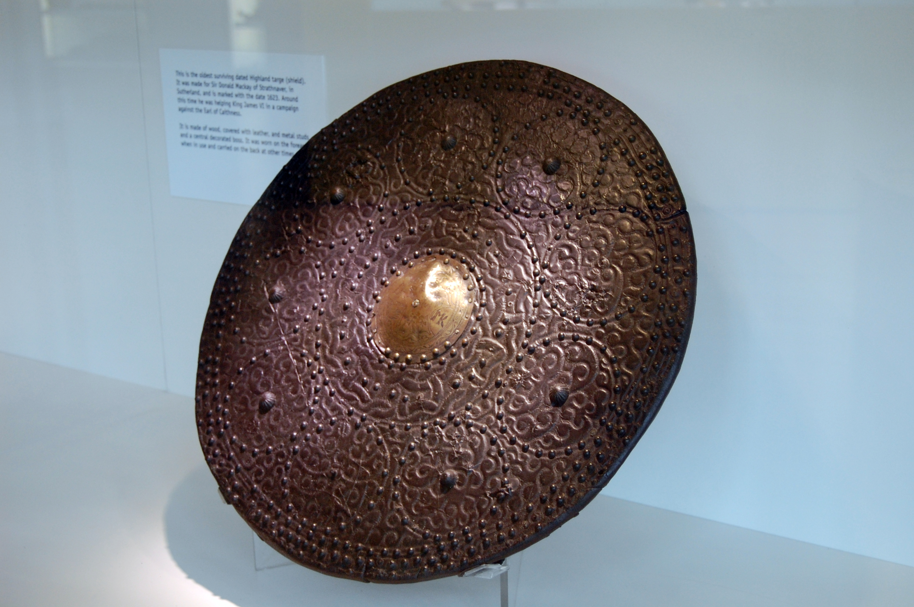 Targe made for Sir Donald MacKay of Strathnaver. The boss is dated 1623. In the collection of the Hunterian Museum, University of Glasgow.